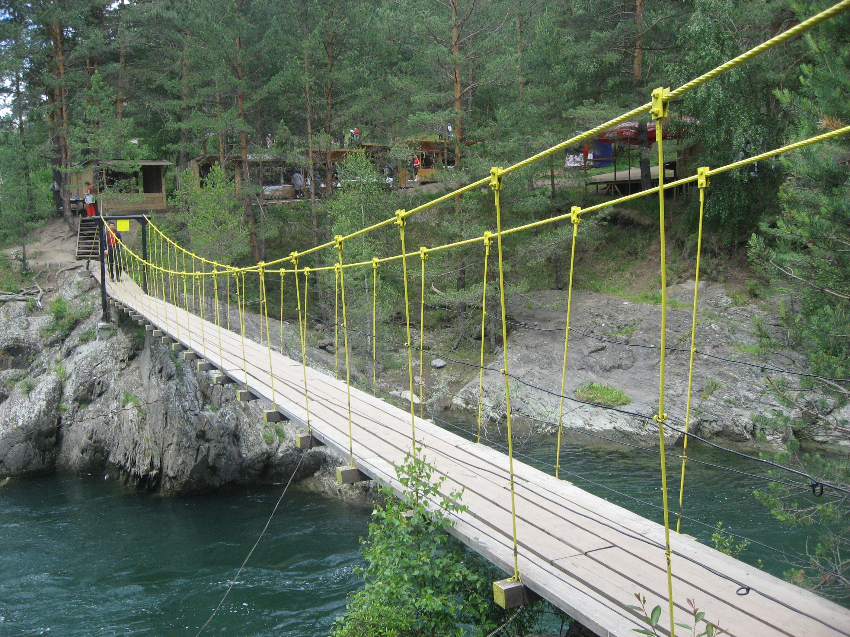 Chemal Region in Altai Republic